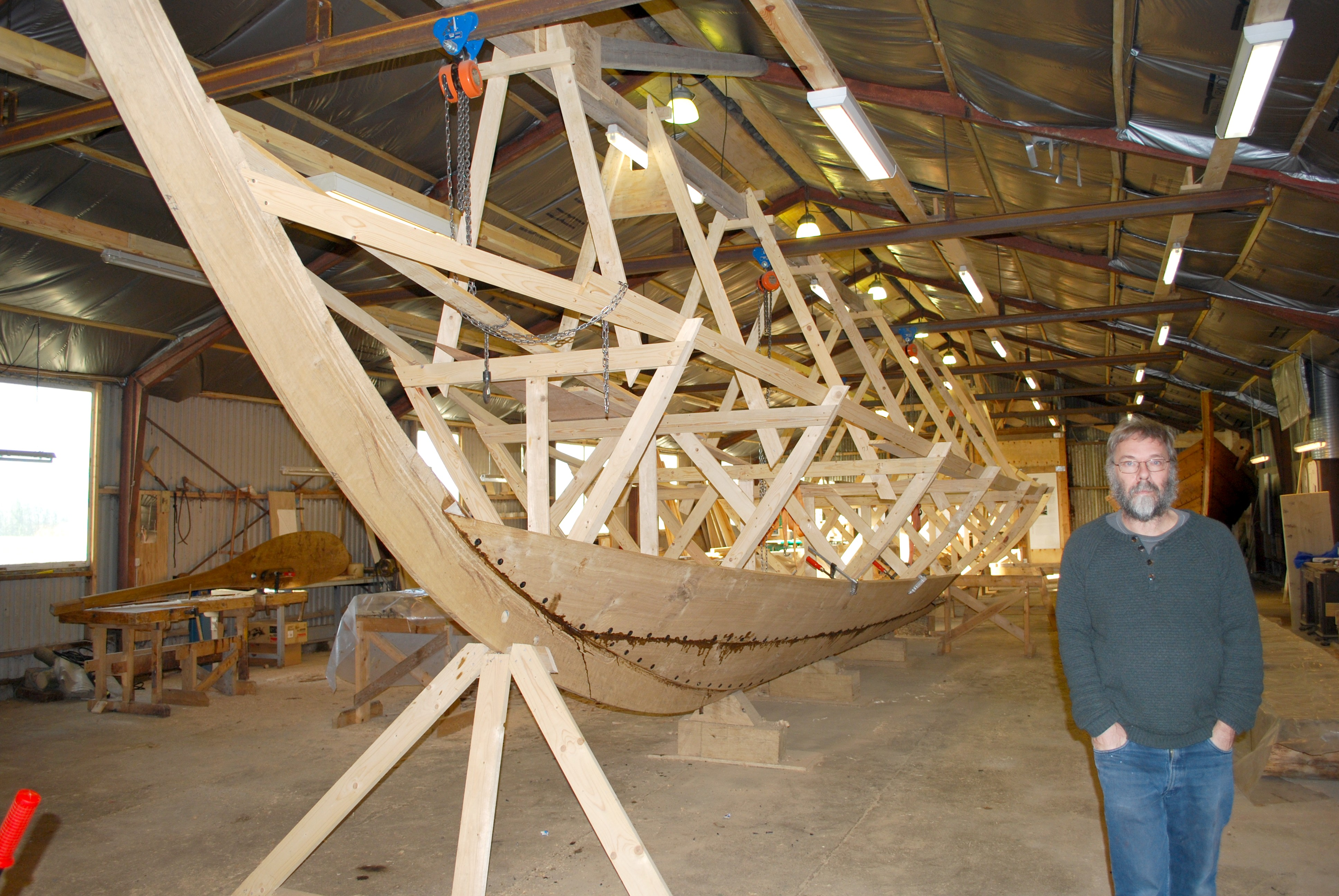 Copy of the Nydam boat, Sottrupskov, Denmark